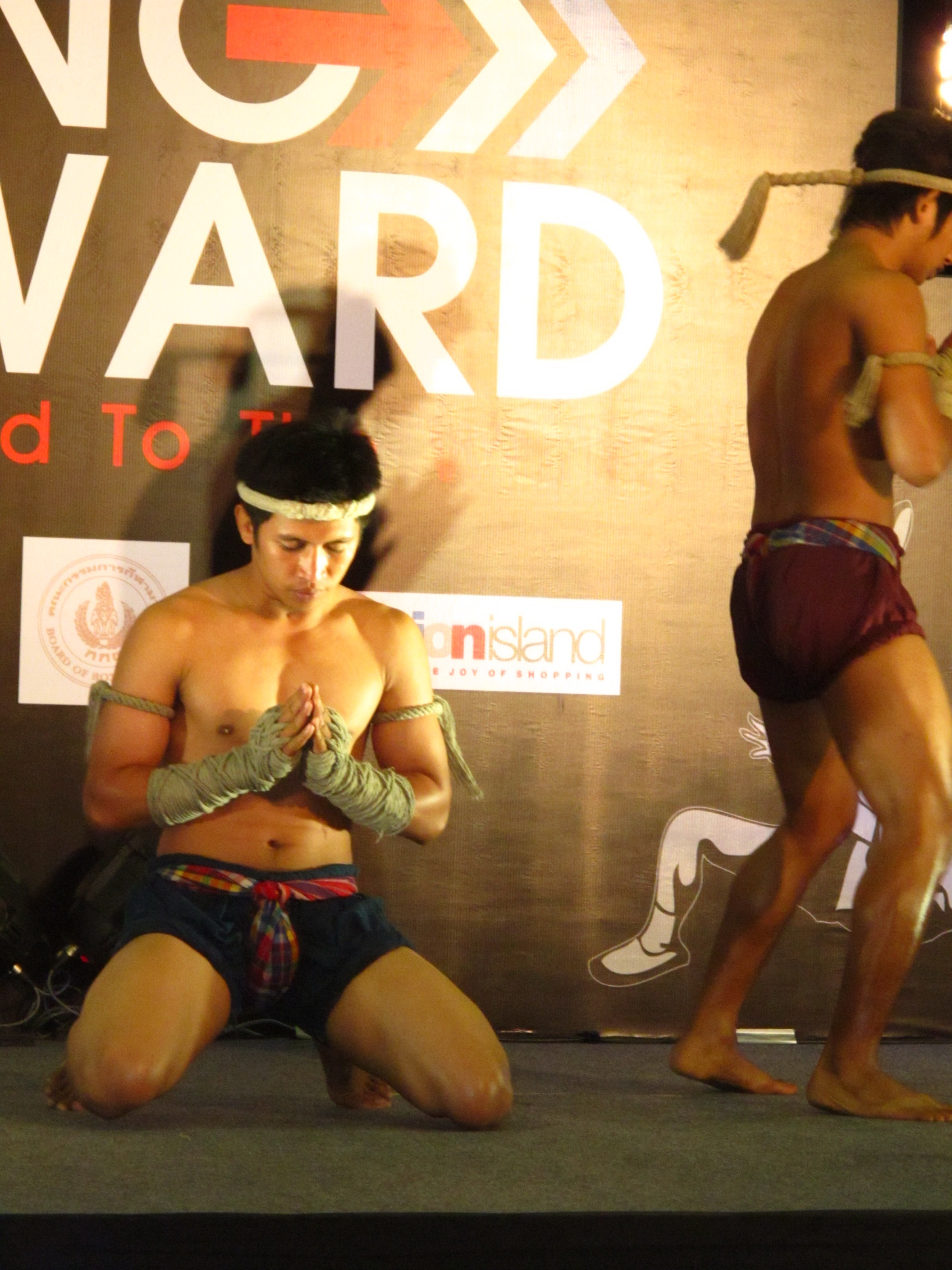 Wai khru ram muay 7